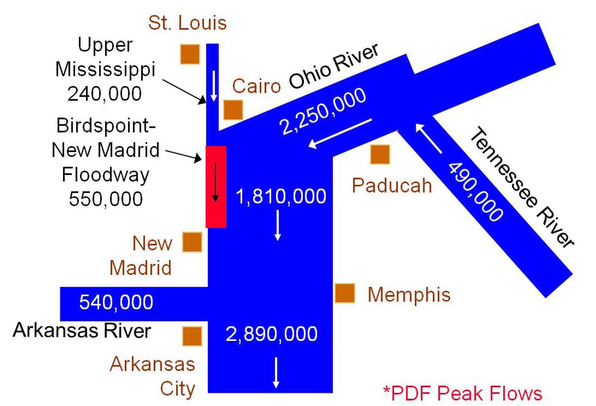 Project design flood flow rates for the Birds Point-New Madrid floodway vicinity.